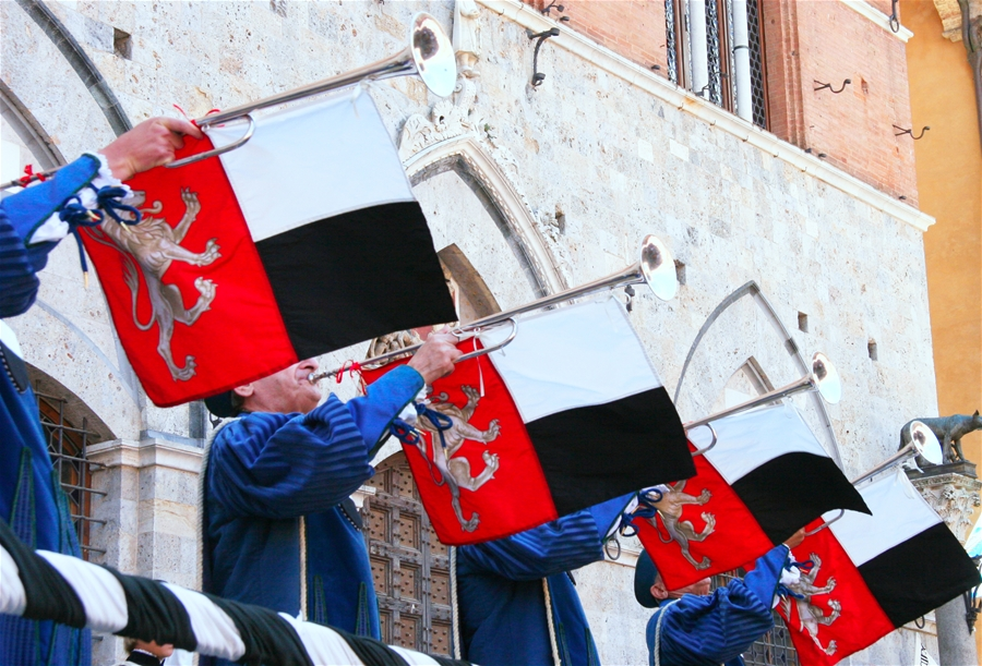 Typical Siena trumpets